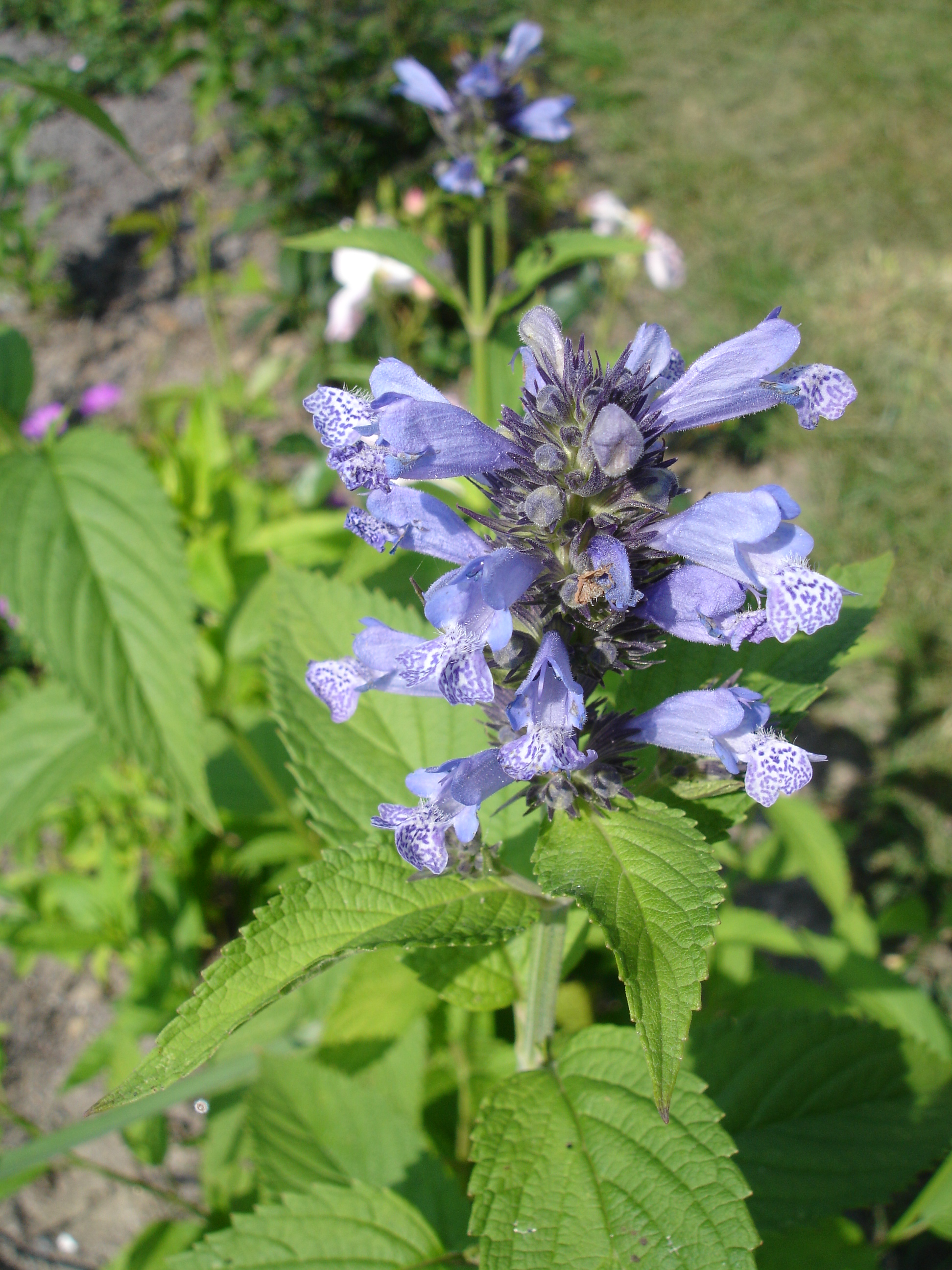 Nepeta manchuriensis